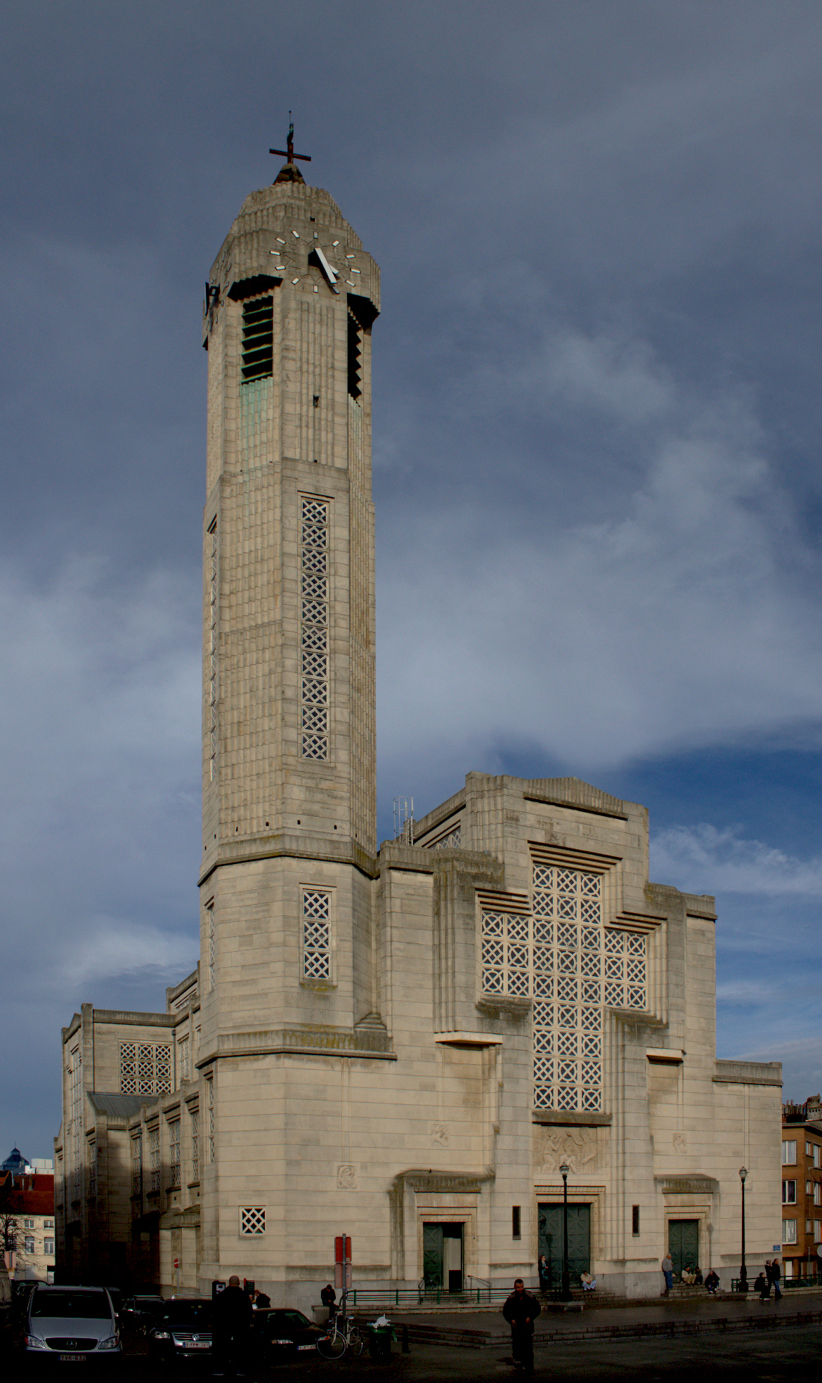 The new St John the Baptist Catholic church (finished in 1932) in Molenbeek-Saint-Jean, a suburb of Brussels.